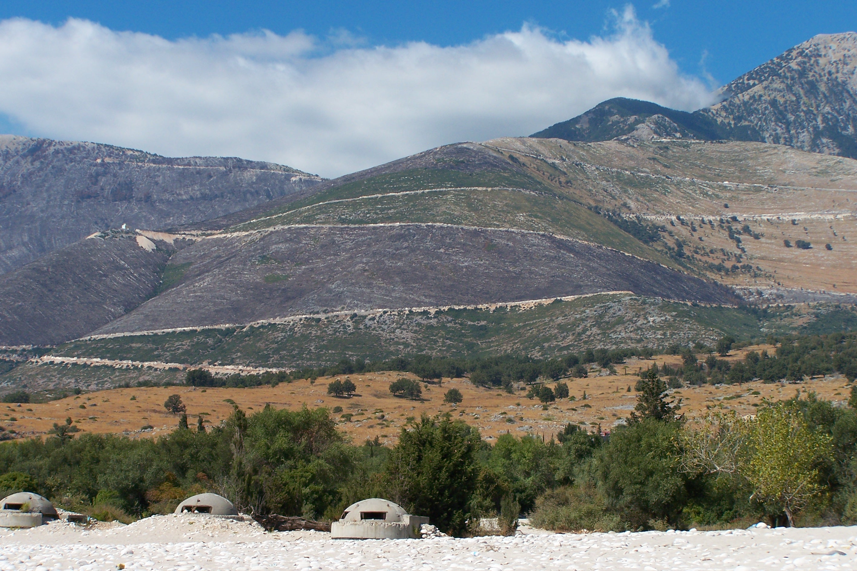 Bunkers on the Albanian Riviera